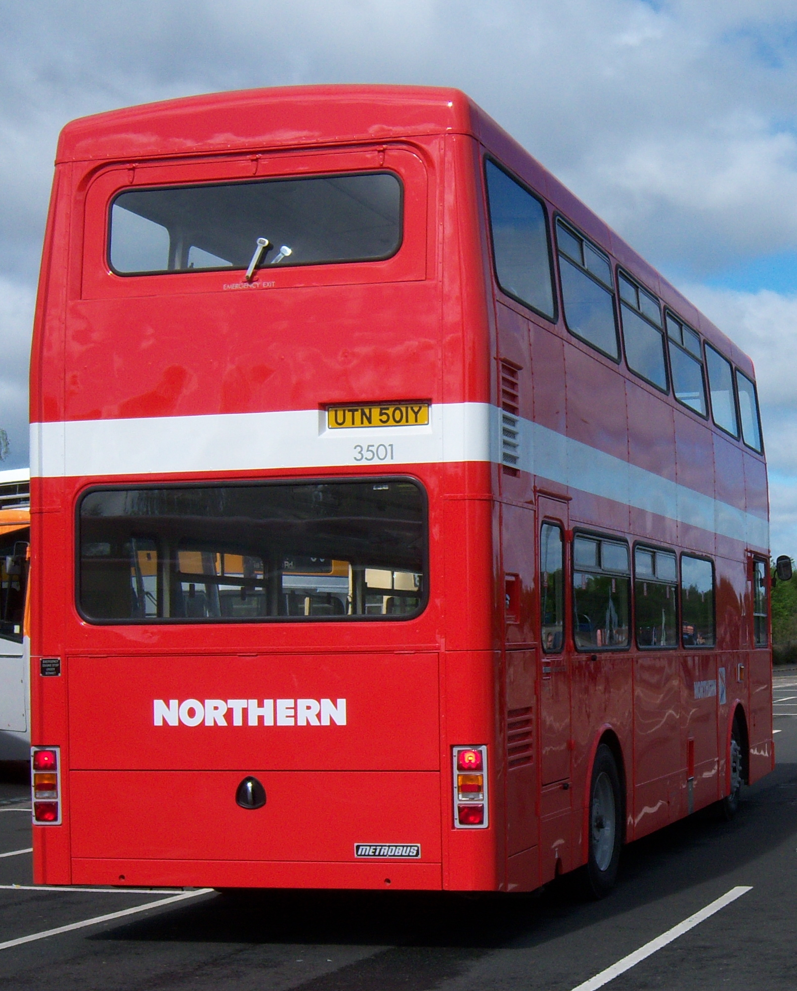 Preserved National Bus Company Northern 3501 (UTN 501Y), a MCW Metrobus MkII, seen on display at the 2009 Metrocentre bus rally.